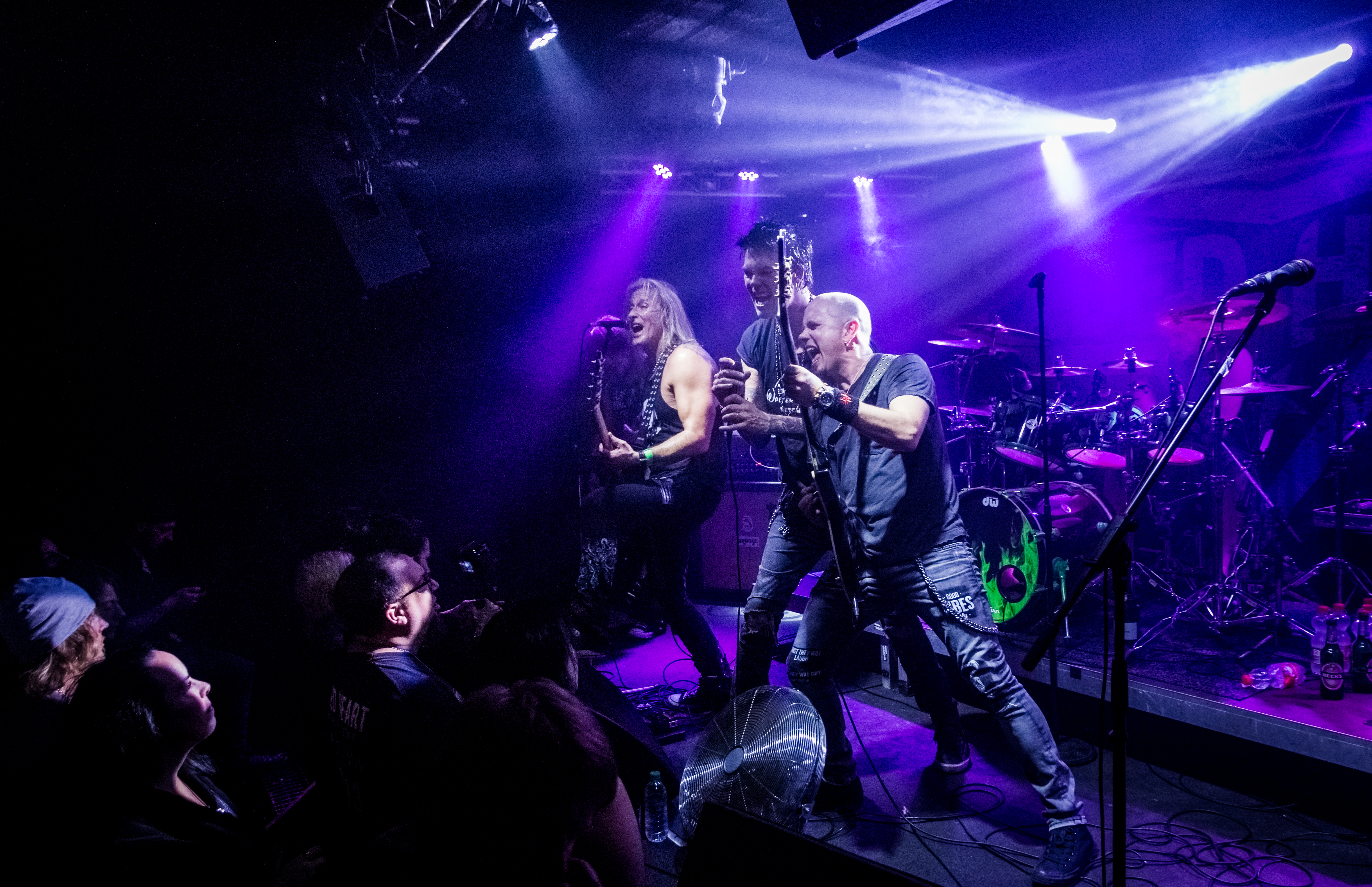 Jaded Heart live@ Helvete Oberhausen 2017